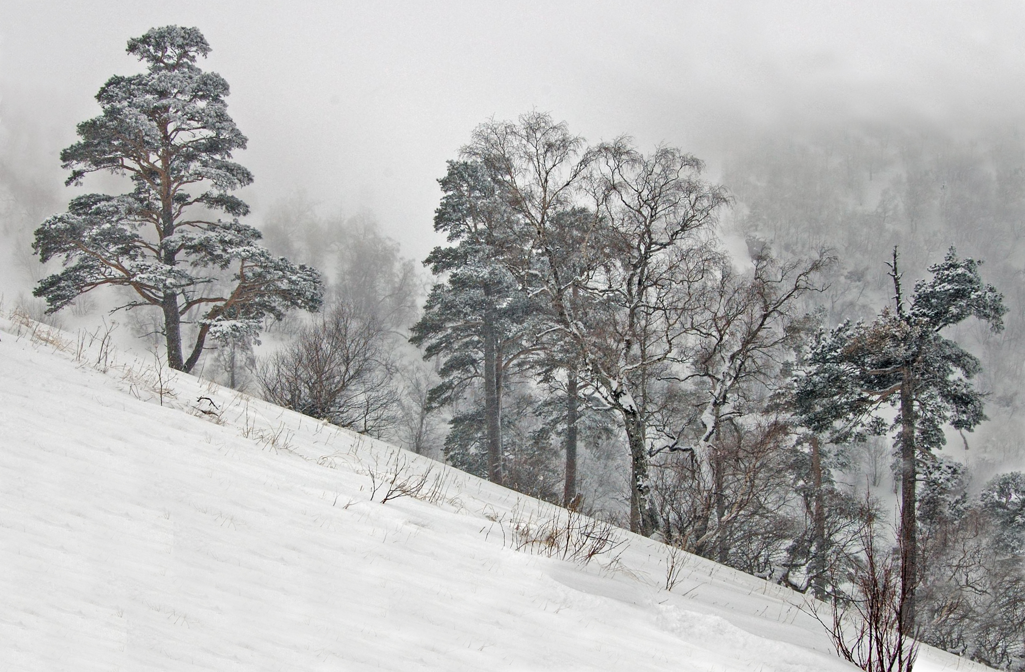 on top of Tatra lift (some call it Kokhta 2), snow caught up on us, but the vew was something that can't be described...